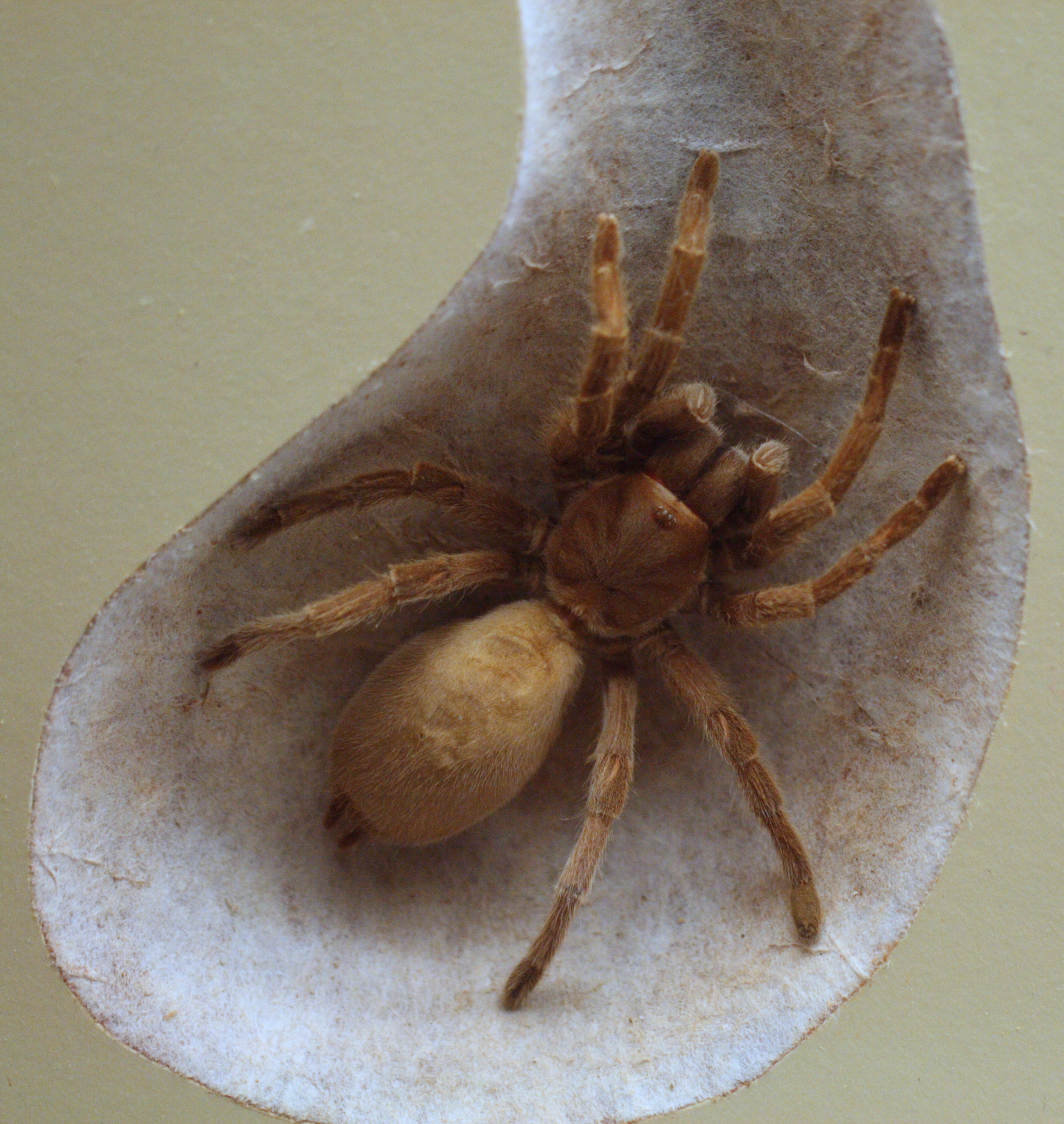 Specimen in the Australian Museum spider display.